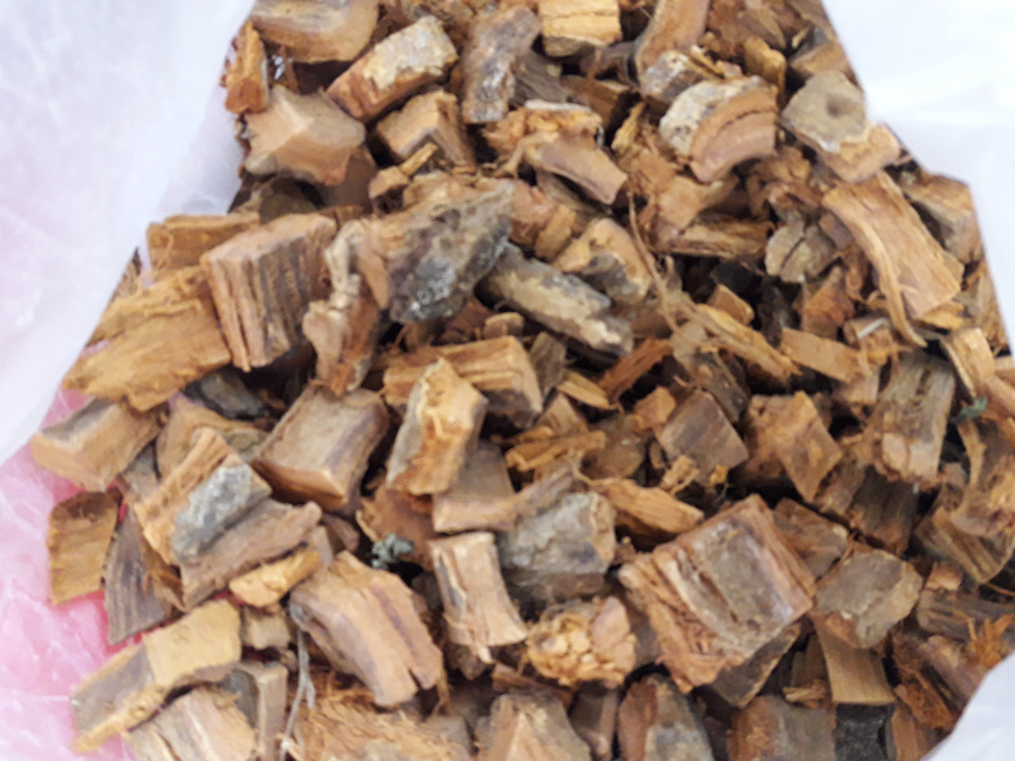 nalpamaram (A mixture of the barks of three fig trees and used in Ayurvedic medicine. Richard Avery (talk) 10:22, 25 July 2020 (UTC))